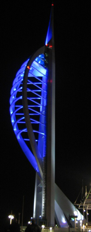 The Spinnaker Tower in Portsmouth, UK, at night. Photo taken 23 December 2005.